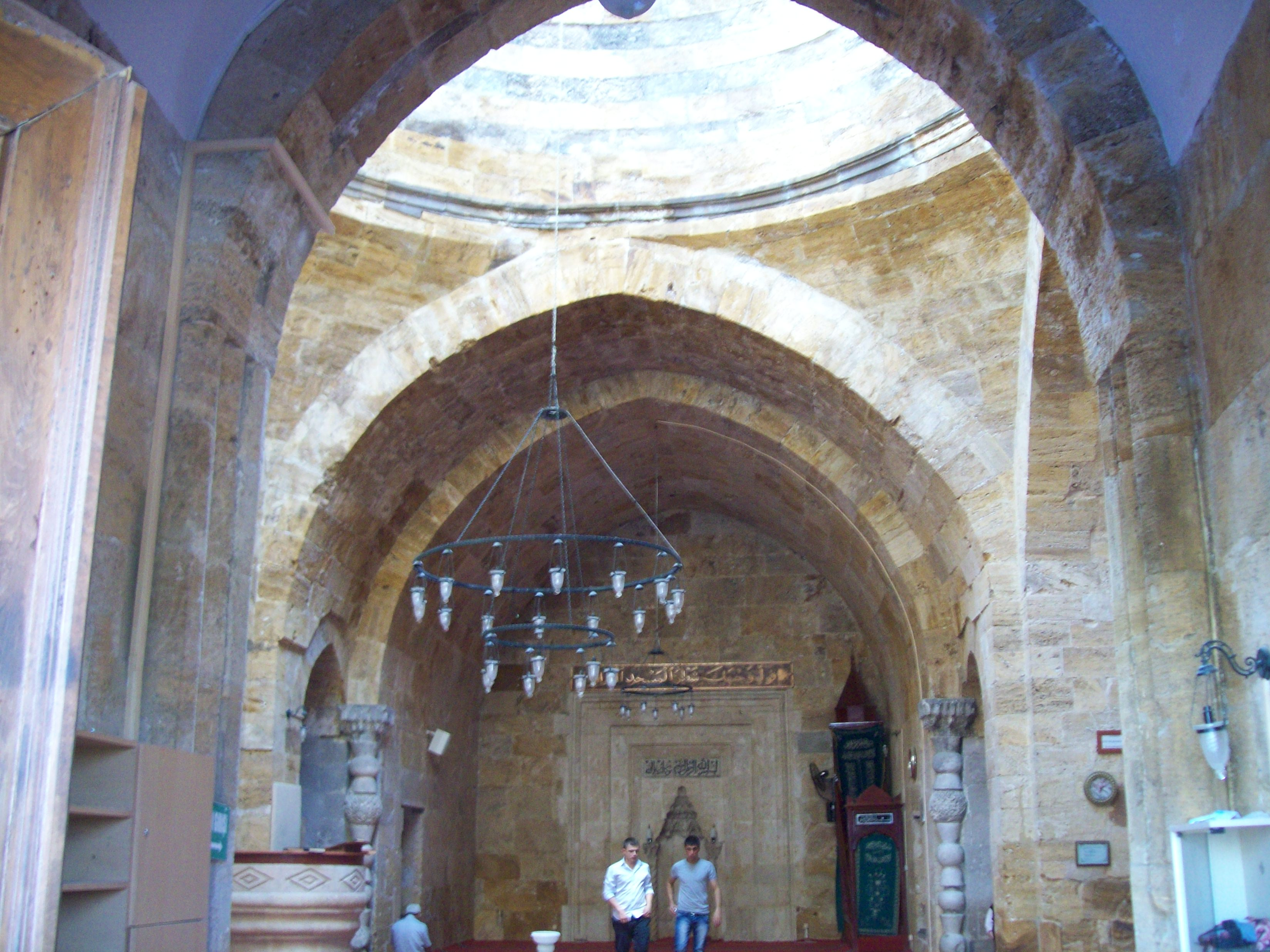 Inner side of Caca Bey Tomb